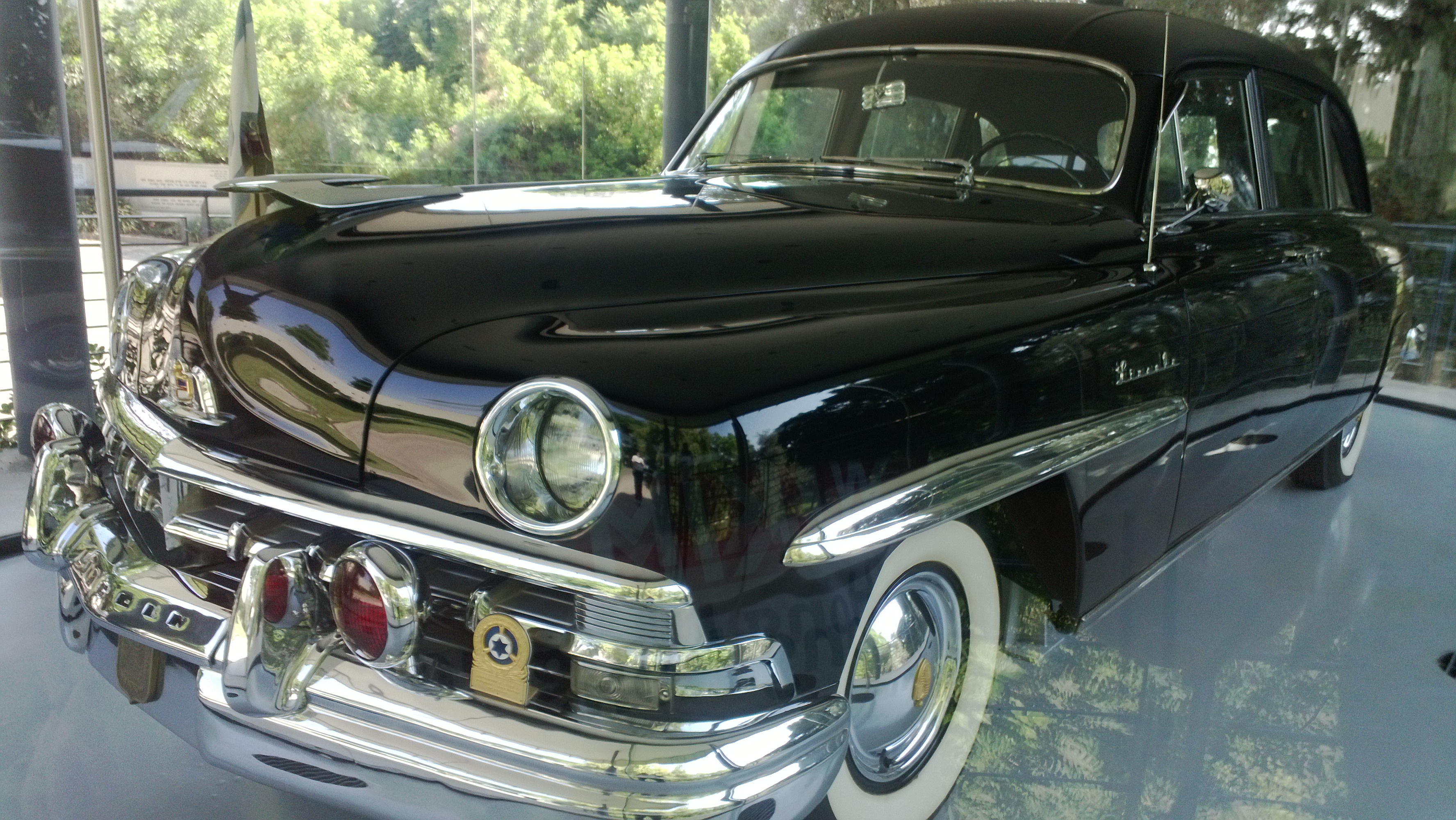 Beit Weizmann